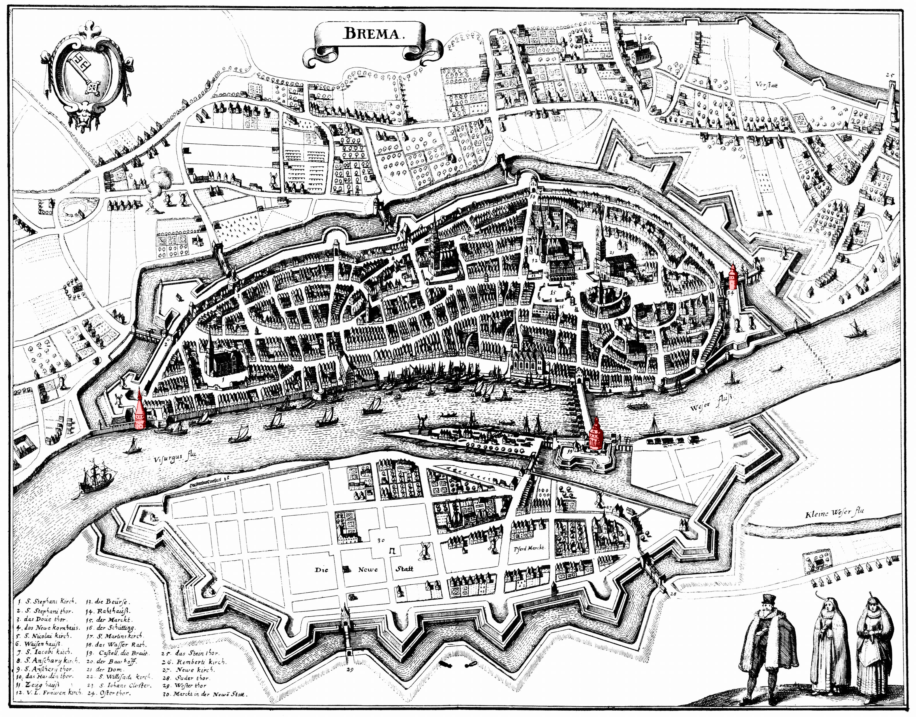 Bremen in the last decade of Thirty Years' War, adaption: powder towers e,mphasized by red colour. The eastern one, on the right, had already exploded in 1624, but been rebuilt in 1626.